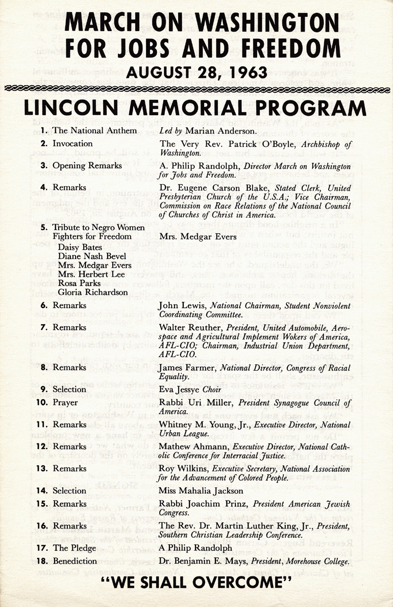 This program listed the events scheduled at the Lincoln Memorial during the August 28, 1963, March on Washington for Jobs and Freedom.